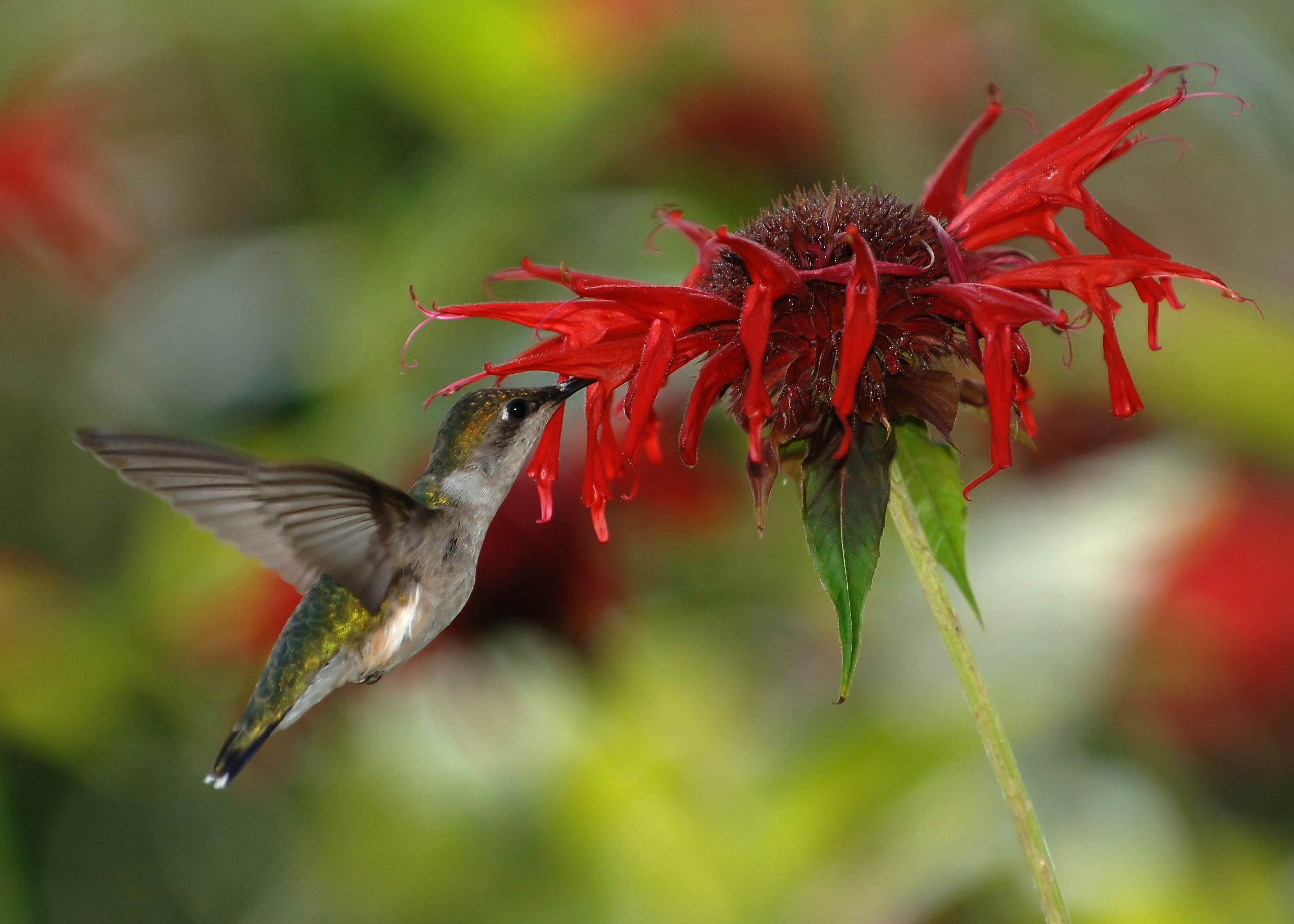 A female ruby-throated hummingbird (Archilochus colubris) sipping nectar from scarlet beebalm (Monarda didyma).